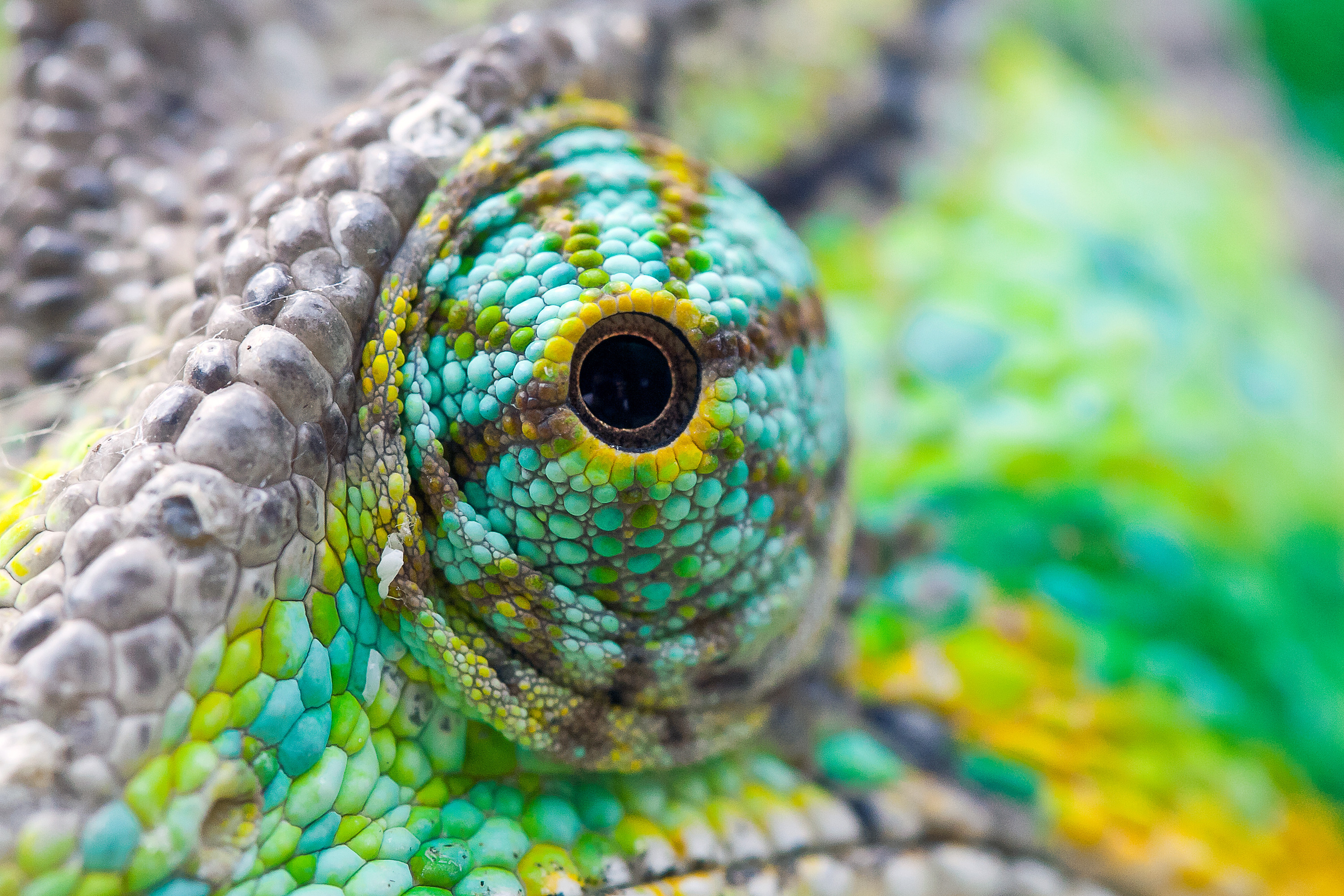 Chameleon's eye